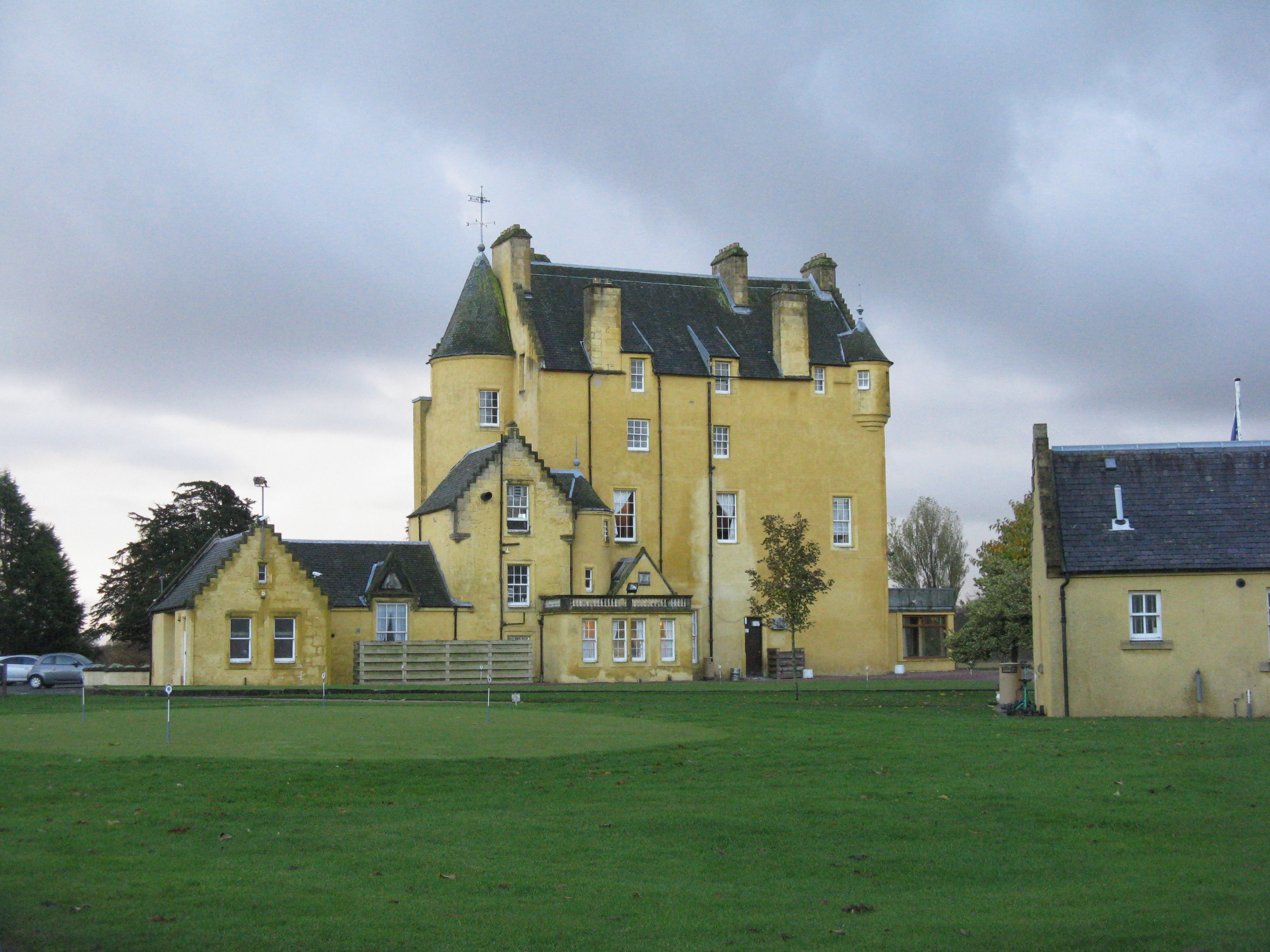 Pitfirrane